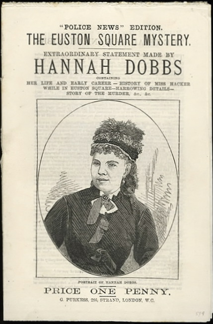 Police News Euston Square Mystery cover Hannah Dobbs c. 1879